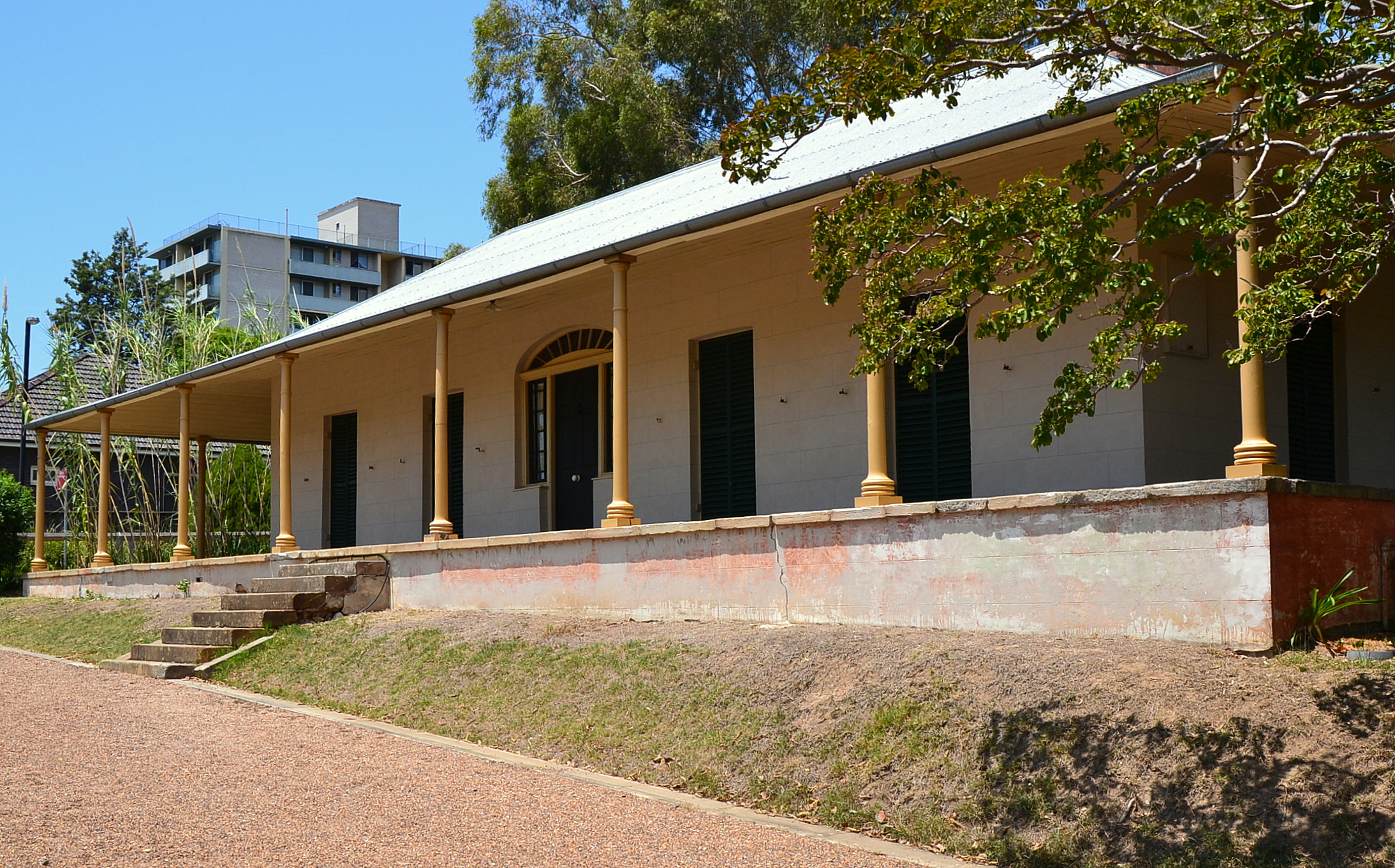 Experiment Farm Cottage; Harris Park, Sydney